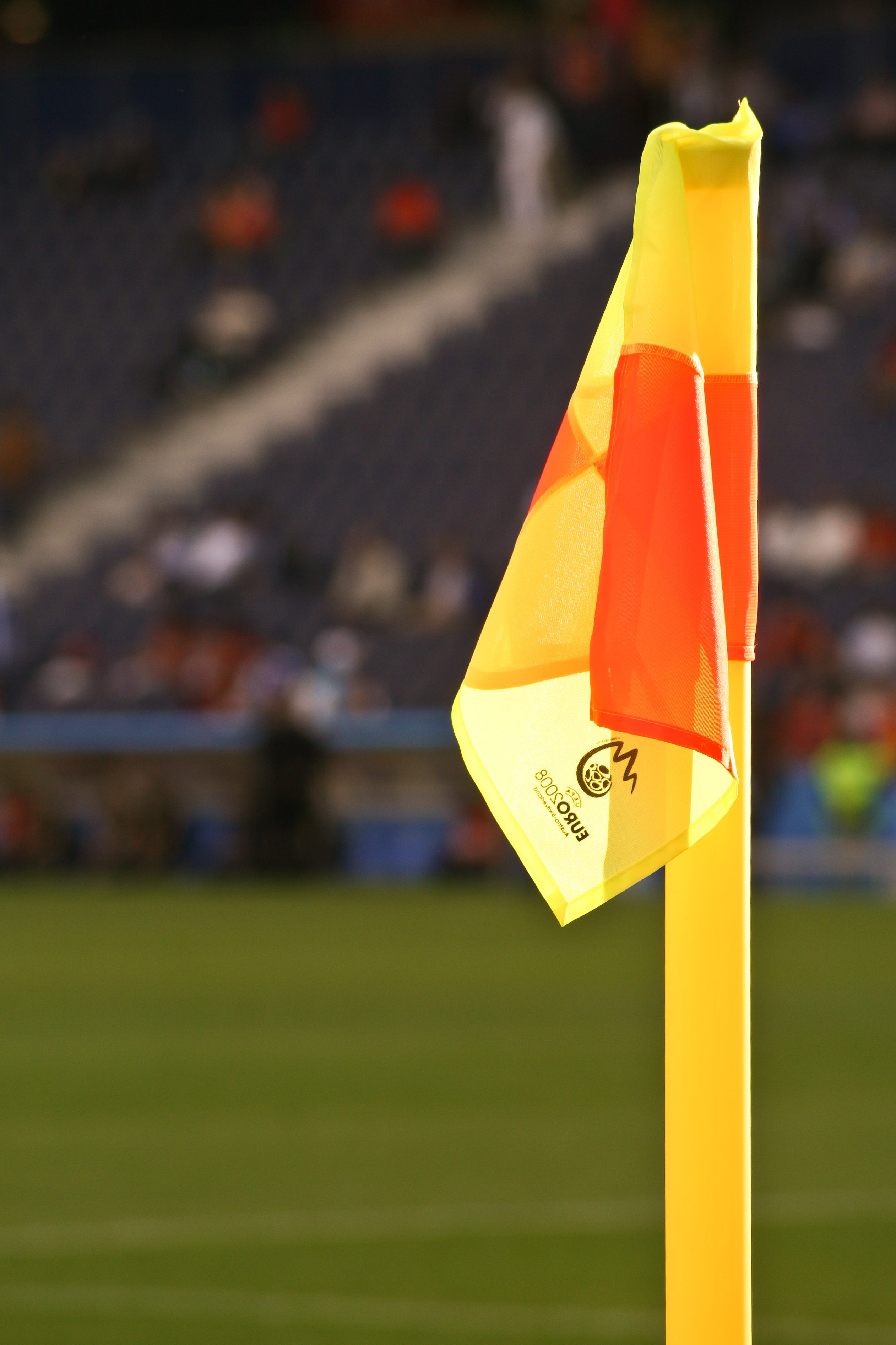 EM-Stadion Wals-Siezenheim in Salzburg during UEFA Euro 2008